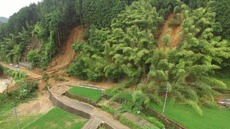 Ōhi River was overflowed by the Northern Kyūshū Heavy Rain in Tōhō Village, Asakura District, Fukuoka Prefecture on July 8, 2017.